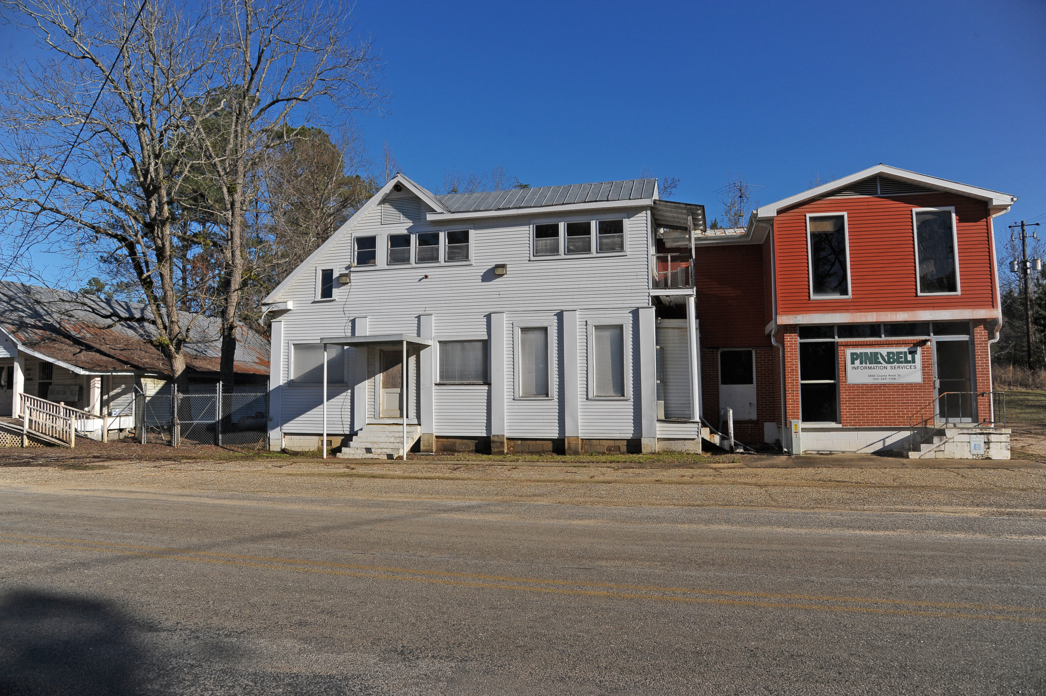 Left to right, Parker Mercantile, Nettles Clinic, Original Pine Belt Telephone HQ Builidng